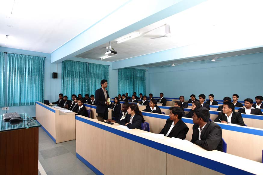 classroom